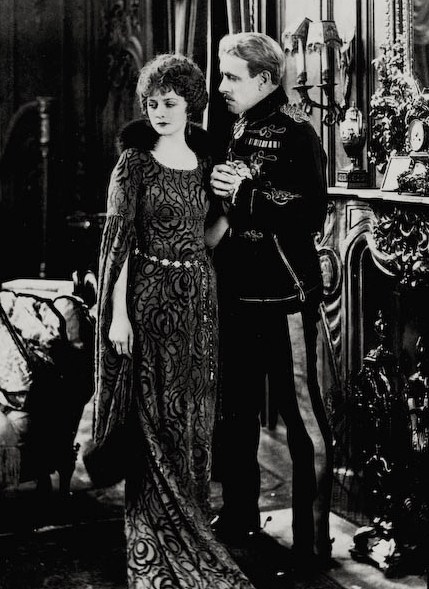 Alice Terry & Lewis Stone in The Prisoner of Zenda - cropped screenshot (original image : see source)